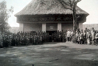 The Bamum School of King Njoya in Foumban that taught the Bamum Script, photo c. 1910